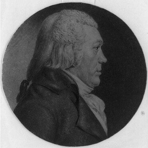 Lewis Richard Morris (Vermont Congressman)